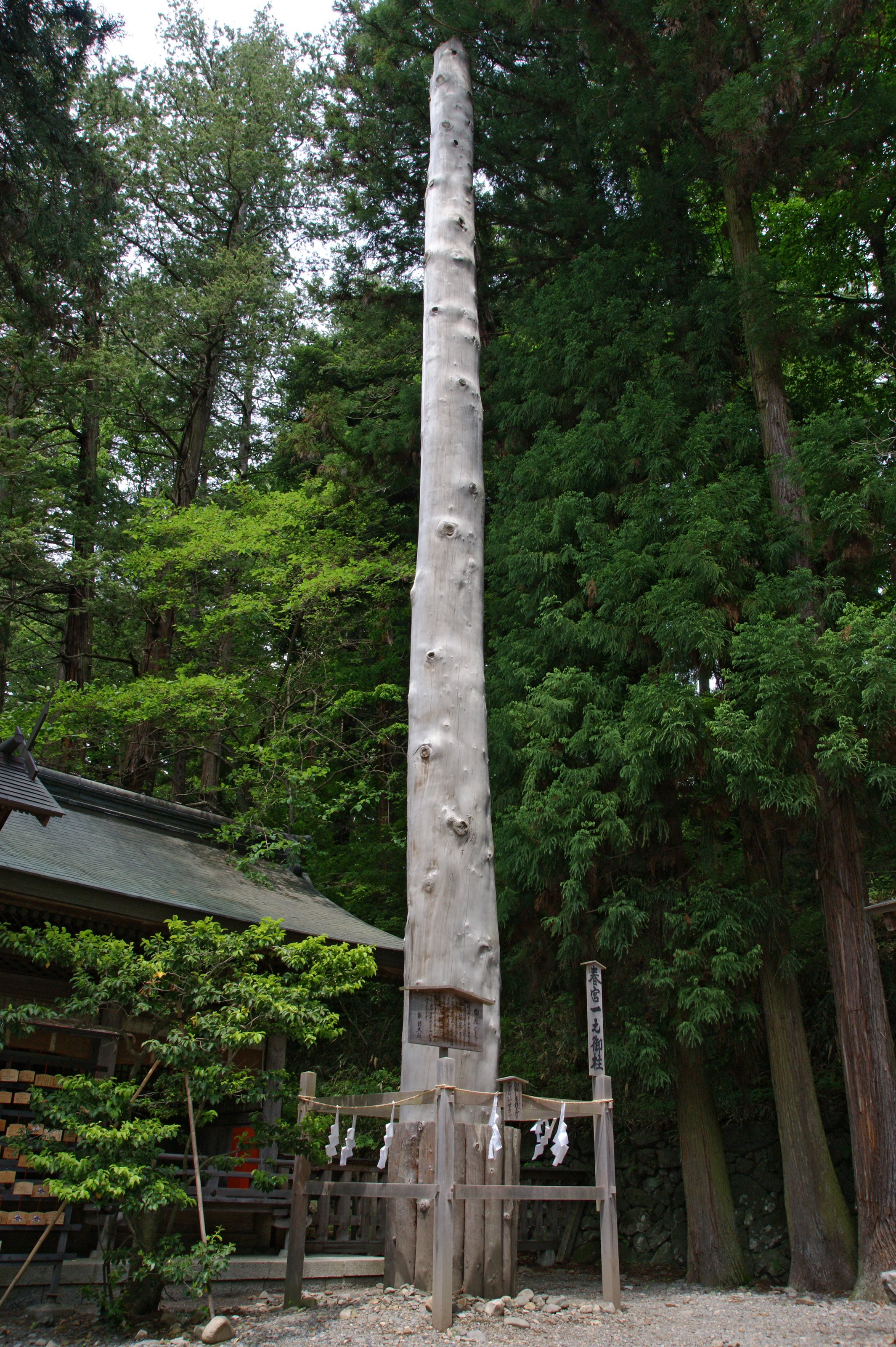 Suwa Taisha Shimosha Harumiya, Shimosuwa, Nagano prefecture, Japan